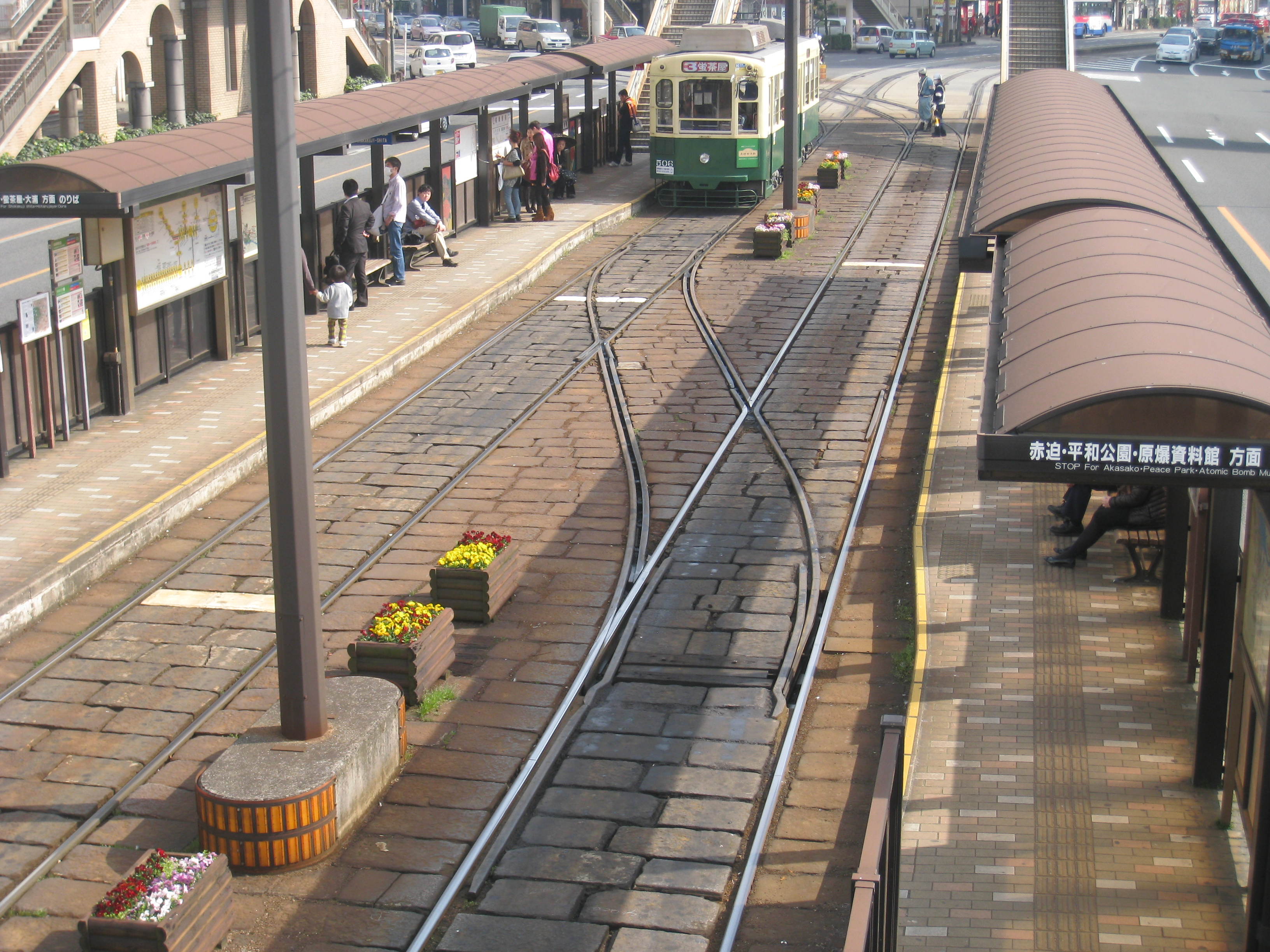 Nagasaki Eki-Mae Tram Stop